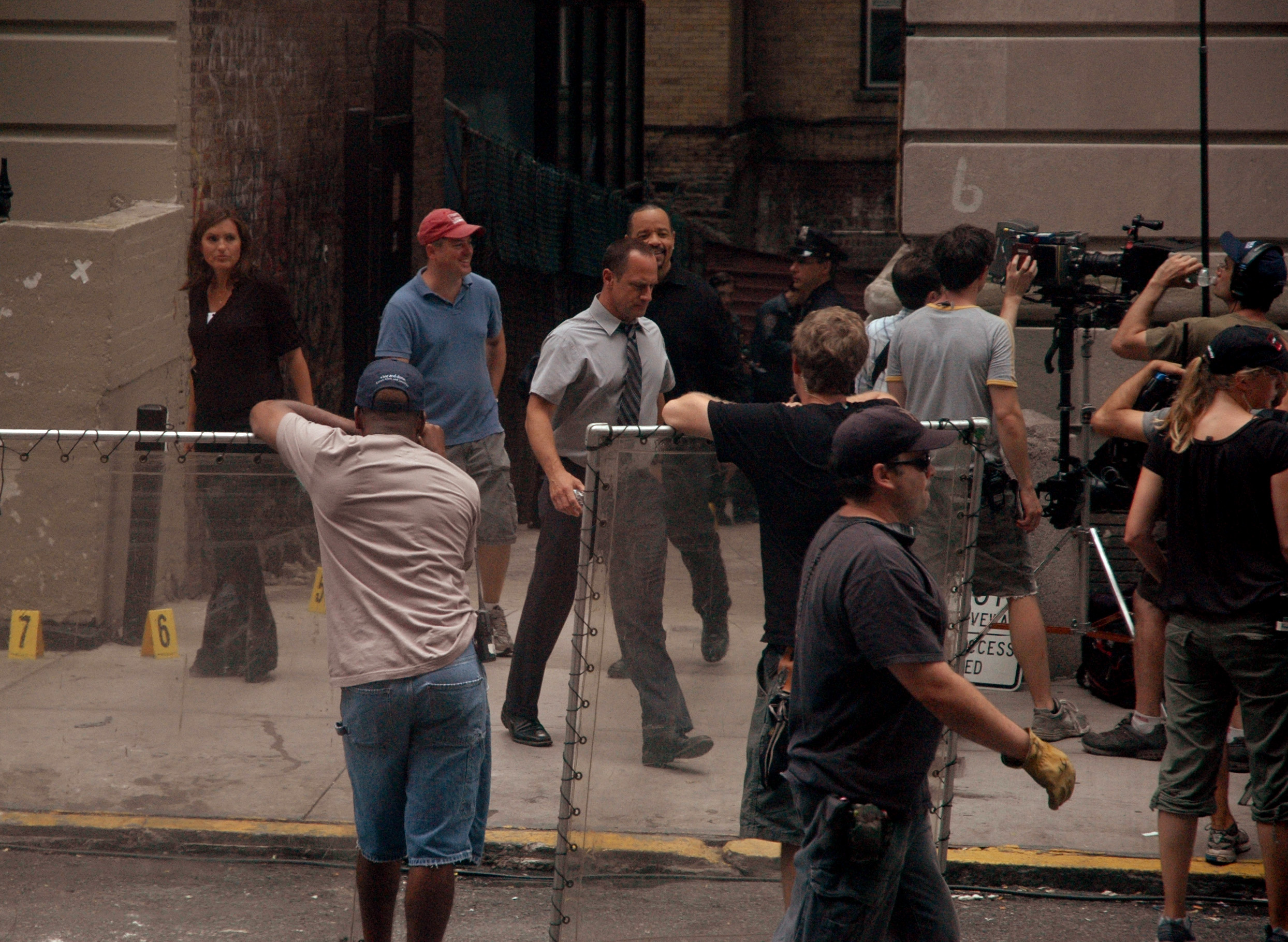 Mariska Hargitay, Christopher Meloni, and Ice-T on set of season 12 of Law & Order: Special Unit filming on West 111th Street in New York.